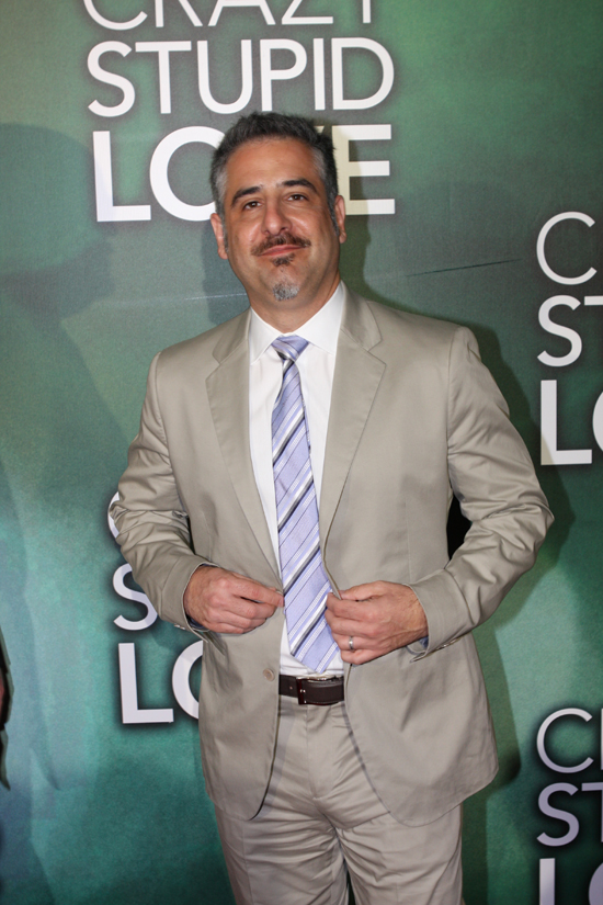 Glenn Ficarra at the Australian premiere for Crazy, Stupid, Love